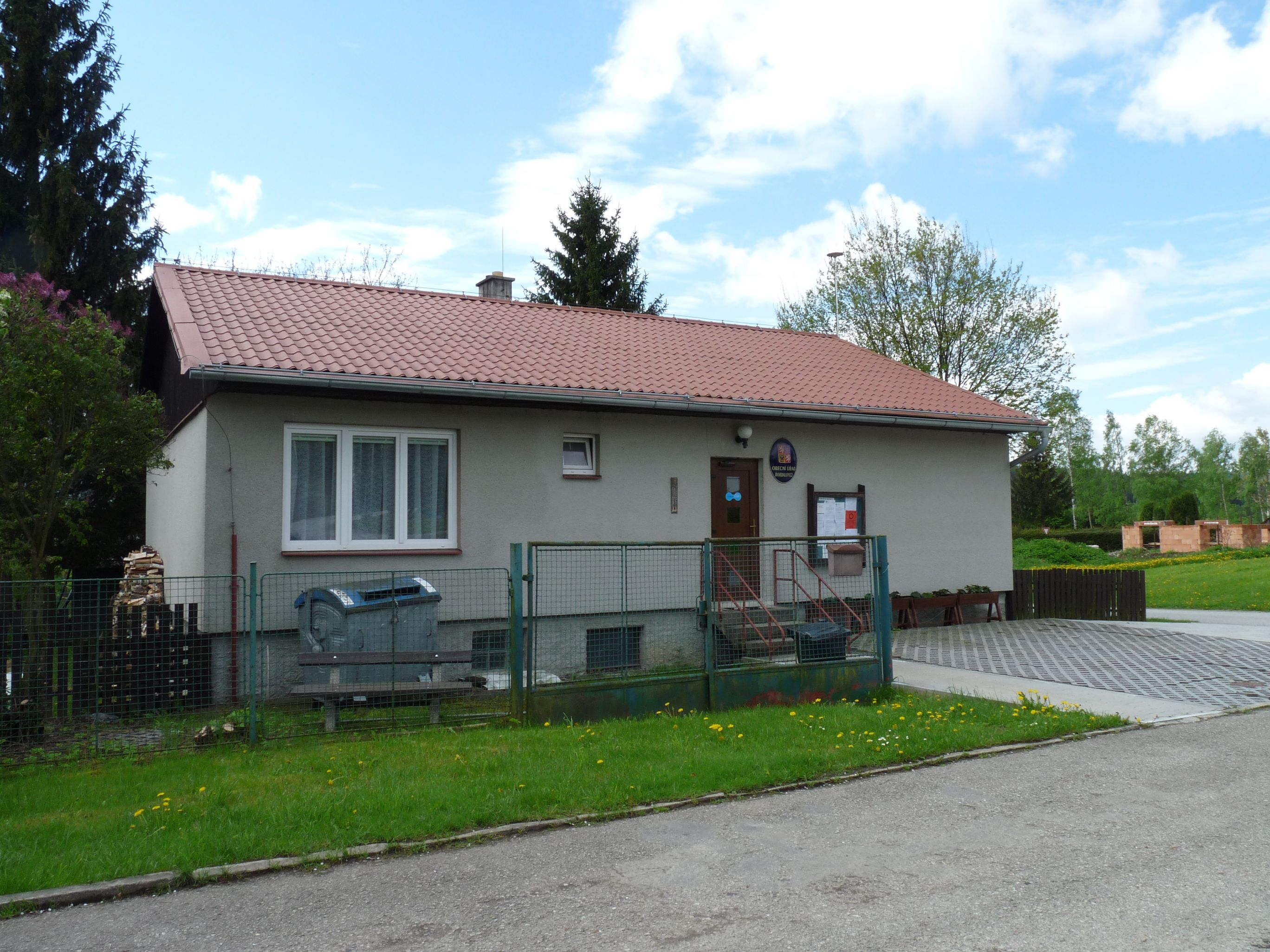 Municipal office building in the municipality of Bohdalovice, Český Krumlov District, South Bohemian Region, Czech Republic.